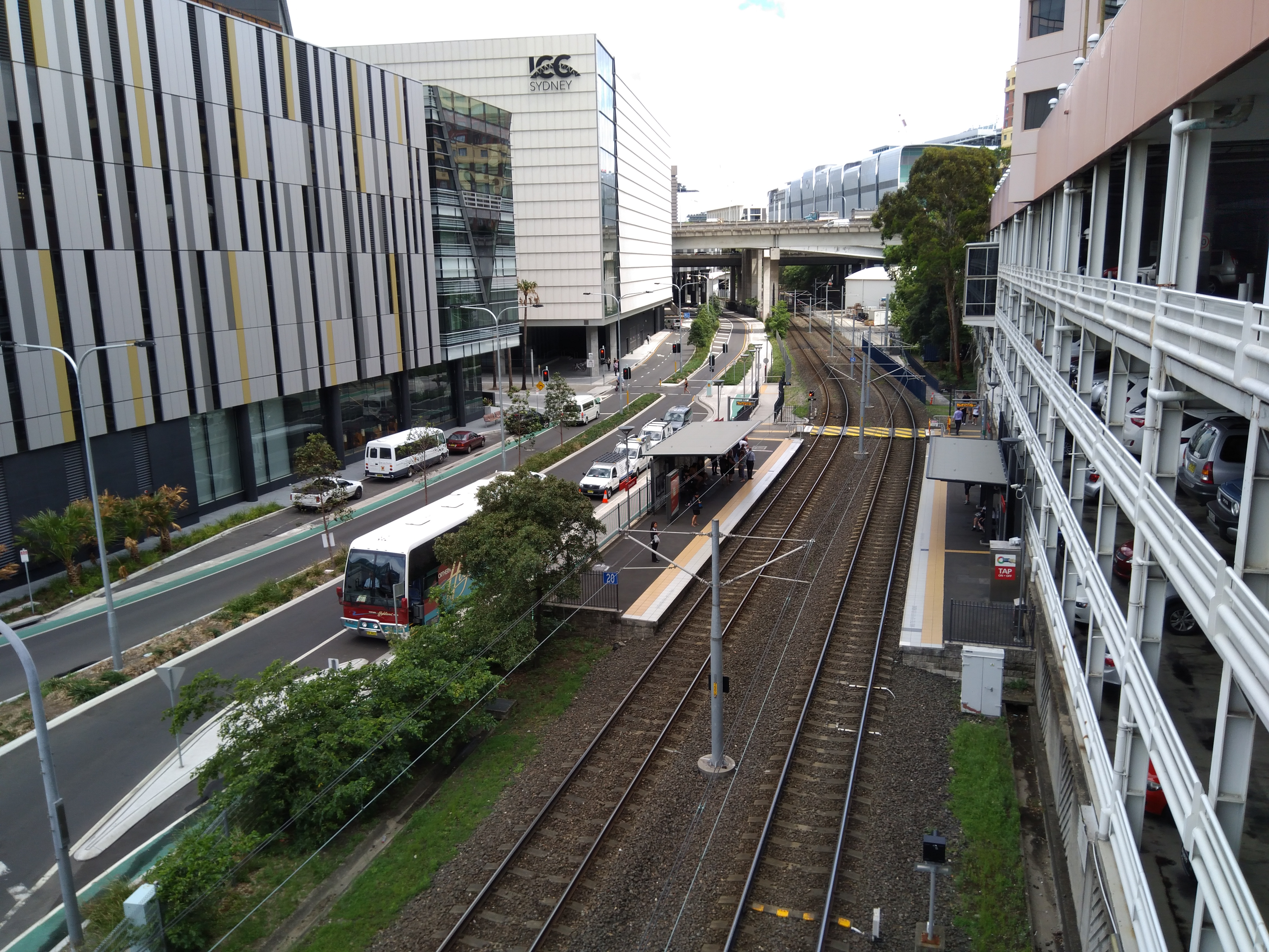 View of the Convention light rail stop from the Novotel building.